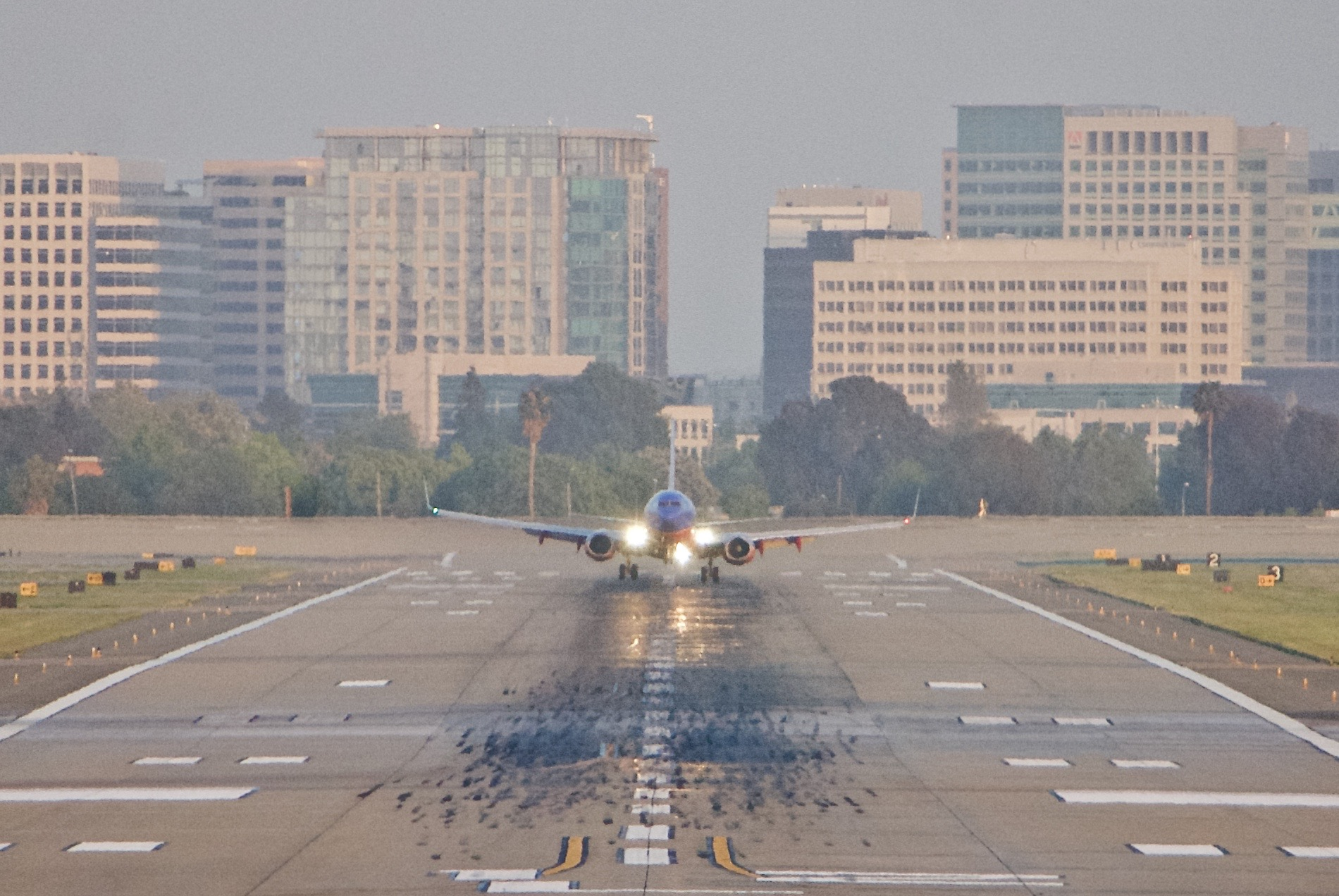 Southwest Airlines Boeing 737 landing DSC_20213_f